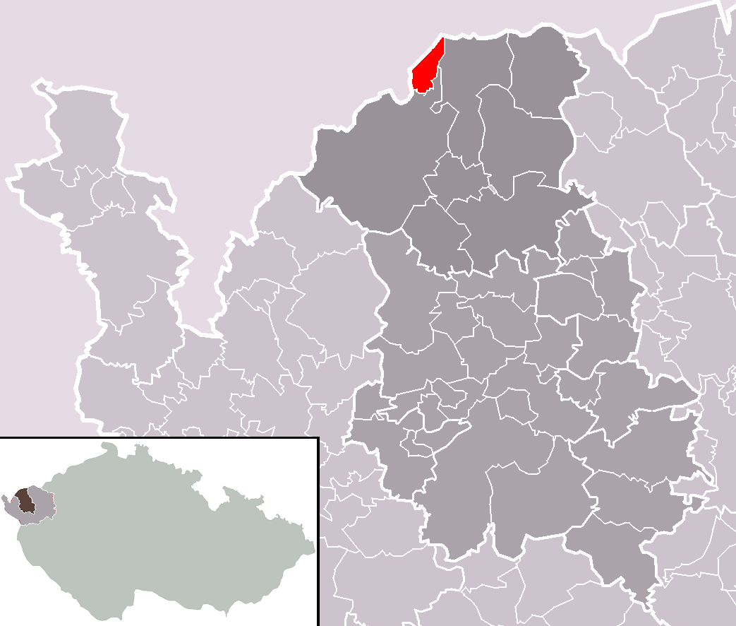 Location of Bublava municipality within Sokolov District and administrative area of Kraslice as a Municipality with Extended Competence.